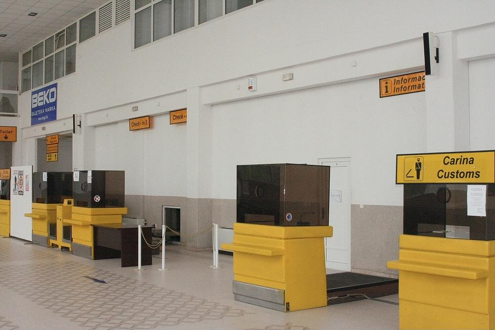 This image was taken by myself User:Kseferovic.